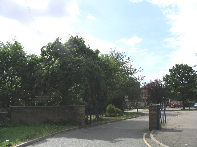 Emerson Park School, Wych Elm Road, Hornchurch, Essex. Local authority 11-16 year old comprehensive school, also now designated as a Specialist Sports College.